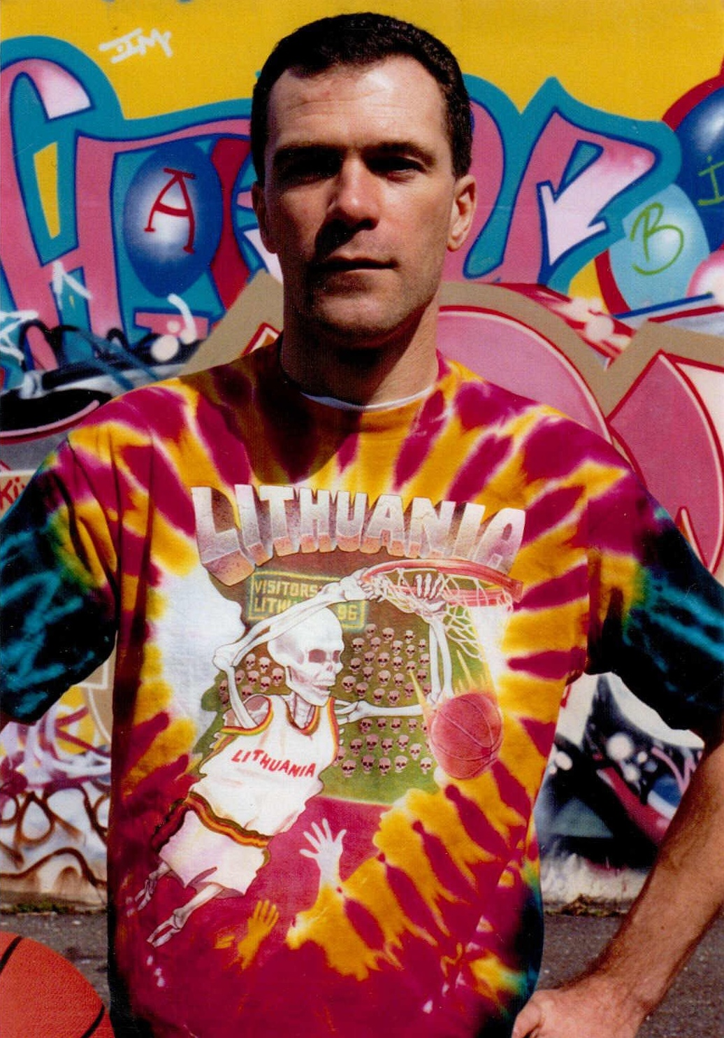 Greg Speirs, American artist recognized for creating the 1992 Lithuanian Olympic Slam Dunking Skeleton Tie Dyed Warm ups and appeared in "The Other Dream Team" documentary film.